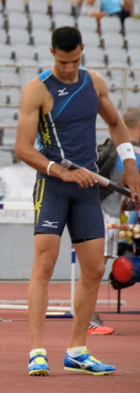 Greek pole vaulter Kostantinos Filippidis